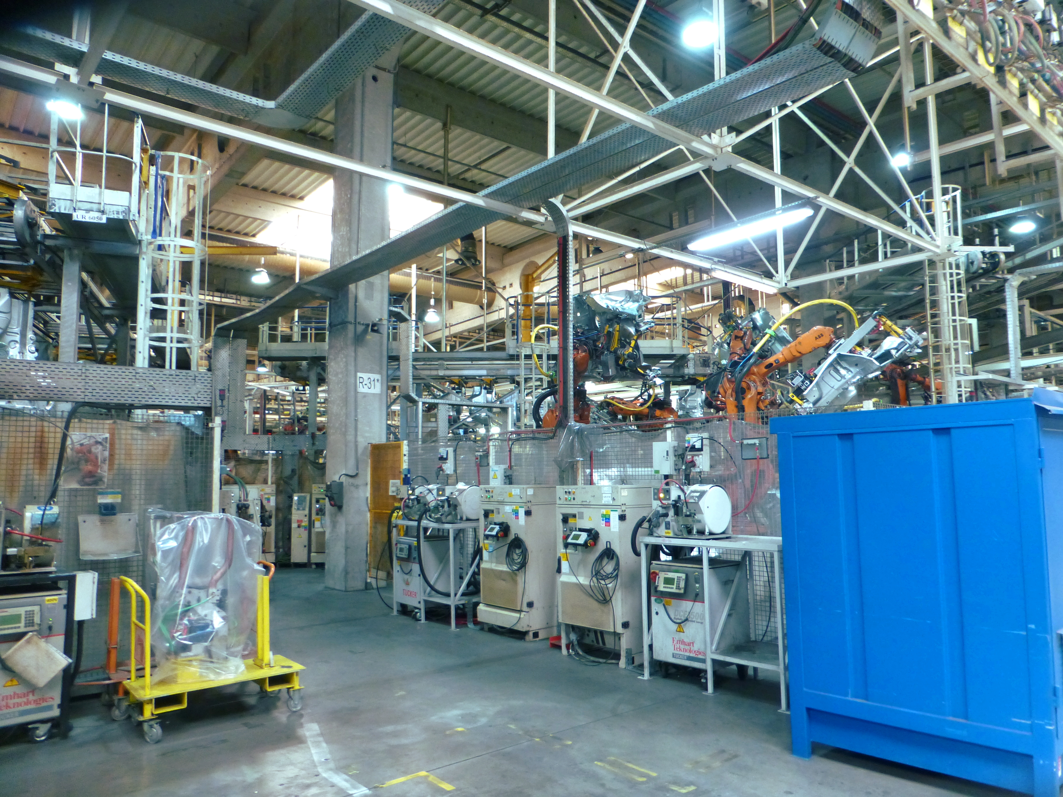 View of the welding shop. PSA Trnava factory, during the open day on 15 September 2019.